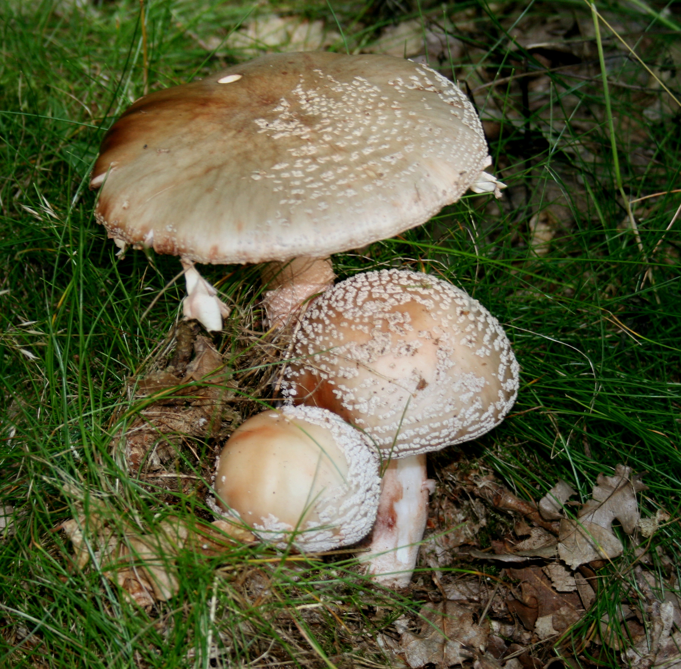 Blusher (Amanita rubescens), found in South Bohemia, Czech Republic